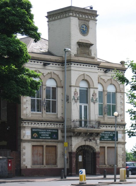 Knottingley - Town Hall